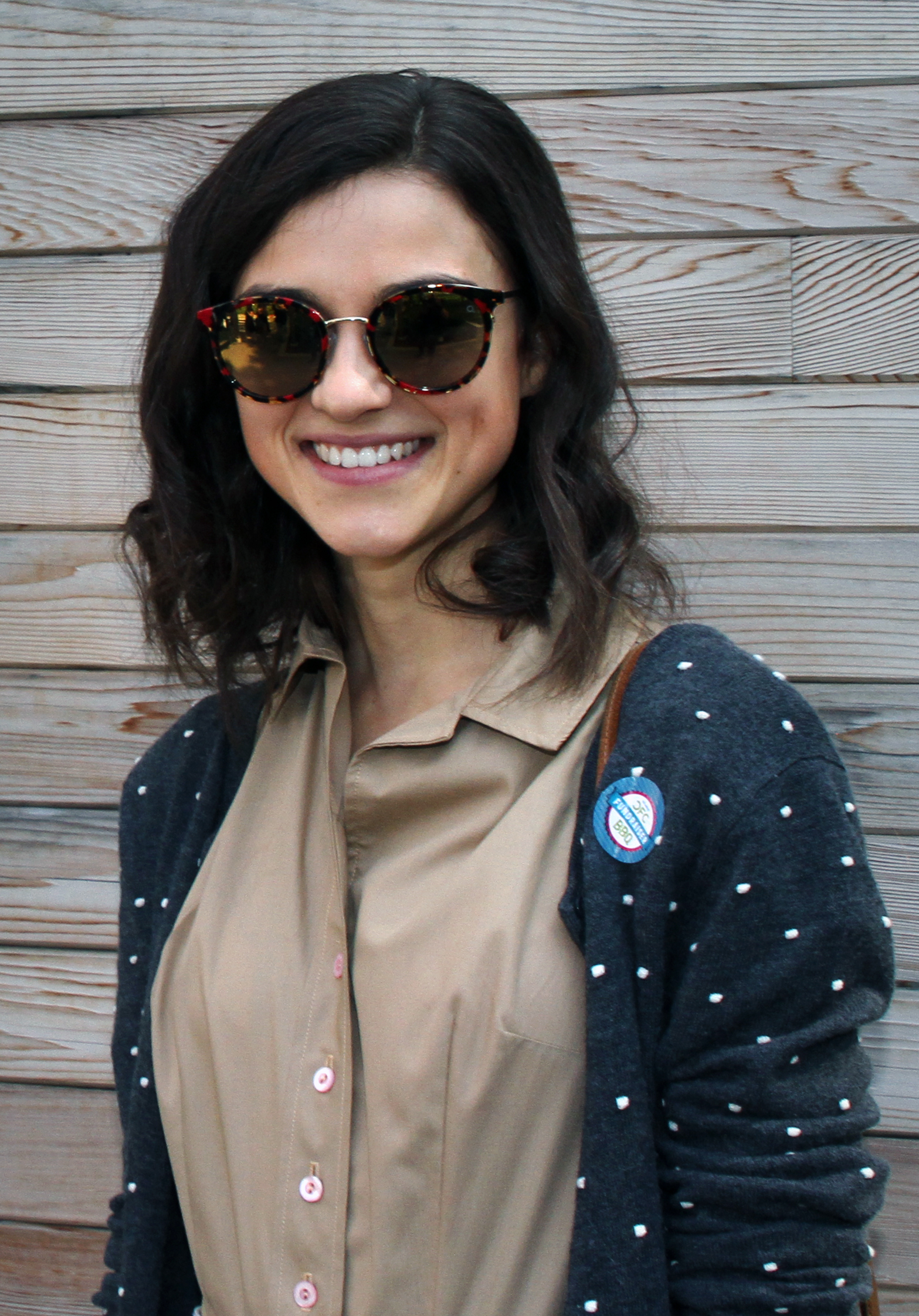 Rebecca Liddiard at the 2017 CFC Annual BBQ Fundraiser. Photo by Danilo Ursini.